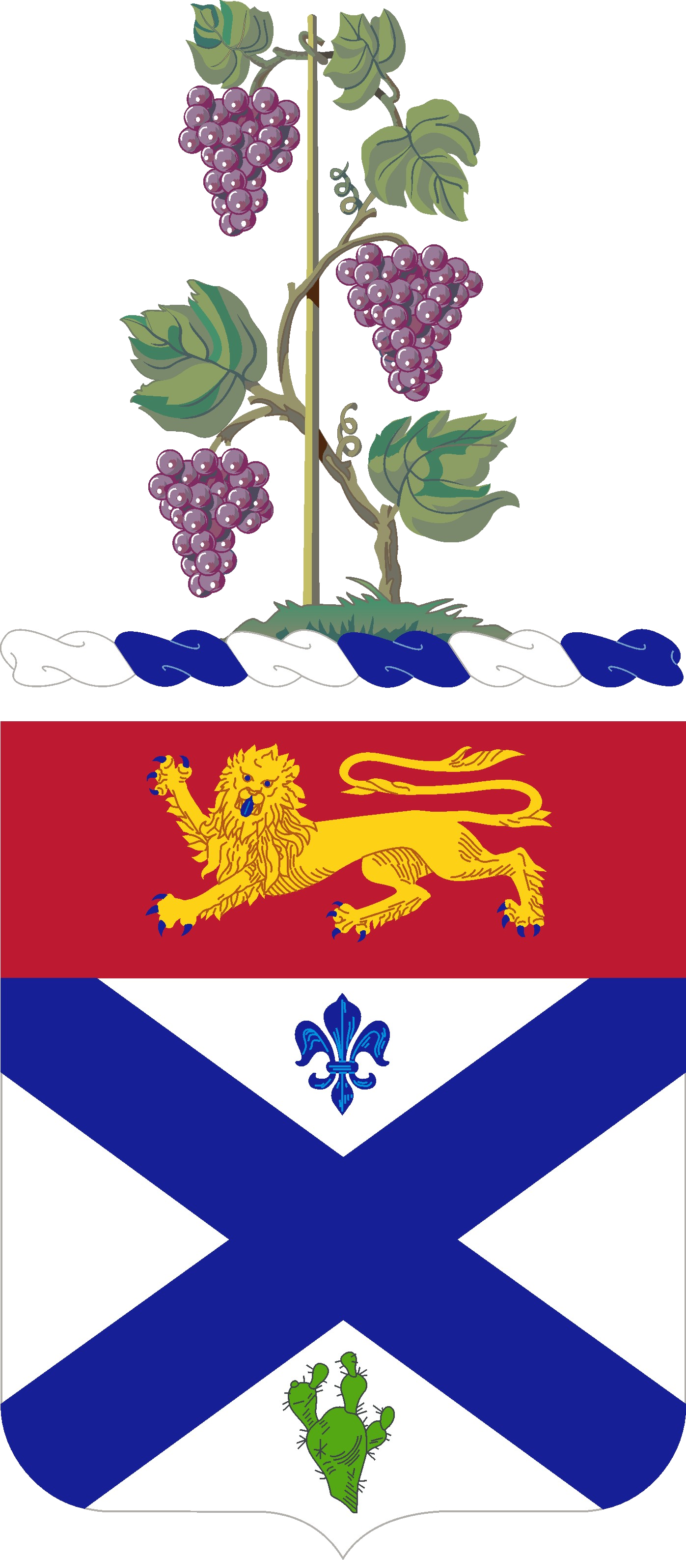 Description/Blazon Shield Argent, a saltire between in pale a fleur-de-lis, both Azure and a prickly pear cactus Vert; on a chief Gules a lion passant guardant Or armed, langued and eyed Azure. Crest That for the regiments and separate battalions of the Connecticut Army National Guard: From a wreath Argent and Azure, a grapevine supported and fructed Proper. Motto ARMIS STANT LEGES (Laws Are Maintained By Force Of Arms). Symbolism Shield The service of the former organization, the 169th Infantry Regiment, is indicated by the shield which is white for Infantry. The saltire symbolizes Civil War service; the fleur-de-lis World War service; and the cactus, Mexican Border duty. The red chief charged with the gold lion represents Revolutionary War service against the British "Red Coats," the lion being taken from the British coat of arms. Crest The crest is that of the Connecticut Army National Guard. Background The coat of arms was originally approved for the 169th Infantry Regiment on 2 March 1927. It was redesignated for the 169th Regiment with the blazon and symbolism revised on 17 September 1997.